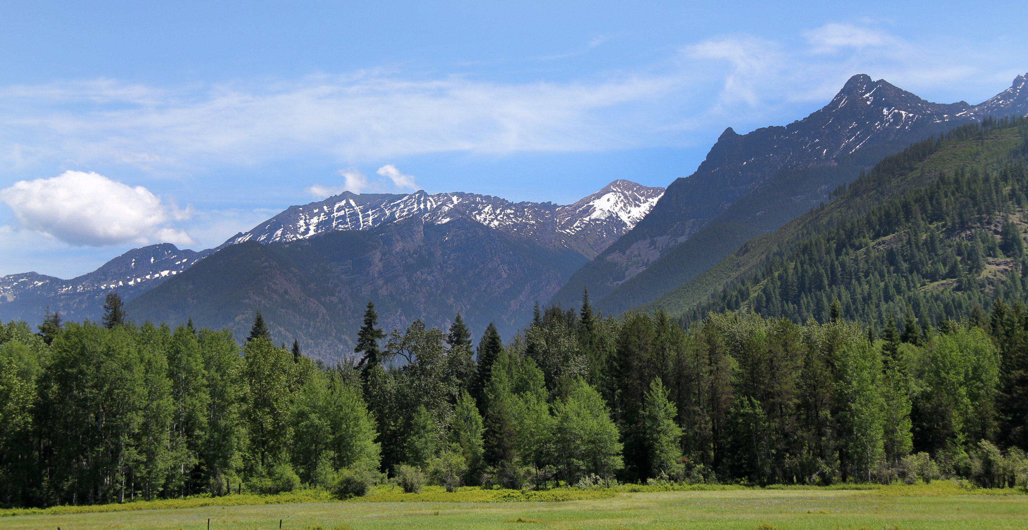 Not only does Bull River Road (Hwy 56) offer outstanding views of the Kootenai National Forest on either side of the road, but there are several fully developed campgrounds with full service and campground hosts. The beautiful Ross Creek Cedars area with interpretive trail and picnicking is a popular destination. There are hiking and horseback trails, dispersed camping and lots of opportunities for a variety of activities. The scenery is spectacular along the Bull River Road and the area is home to bears, deer, elk, small mammals and birds. Recreation is year round in the area with snowmobiling, cross country skiing, snowshoeing, and ice fishing in the winter. The landscape in the area is very diverse from low elevation timber and lakes to the outstanding peaks in the Cabinet Mountains and Scotchman Peak area.